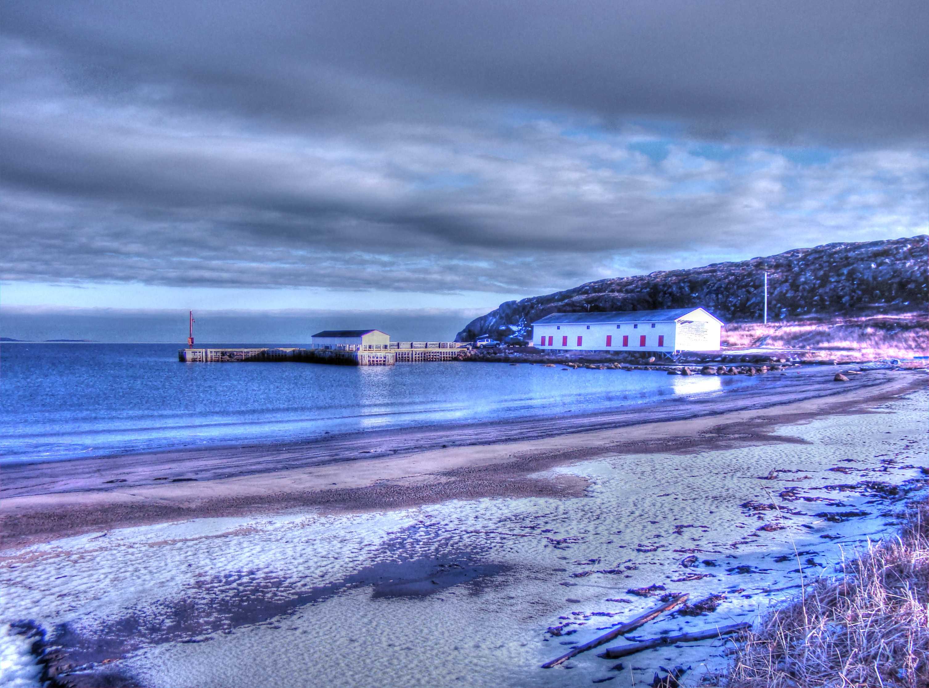 By 1980 Pinware had a small salt fish plant, a community wharf and a building supply business. The fishery was and is important to the town's economy. The wharf is literally abandoned today, but local fishermen still use it as a harbour for their boats.